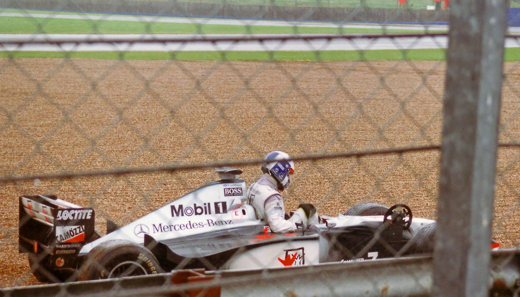 David Coulthard retiring from the 1998 British Grand Prix at Silverstone